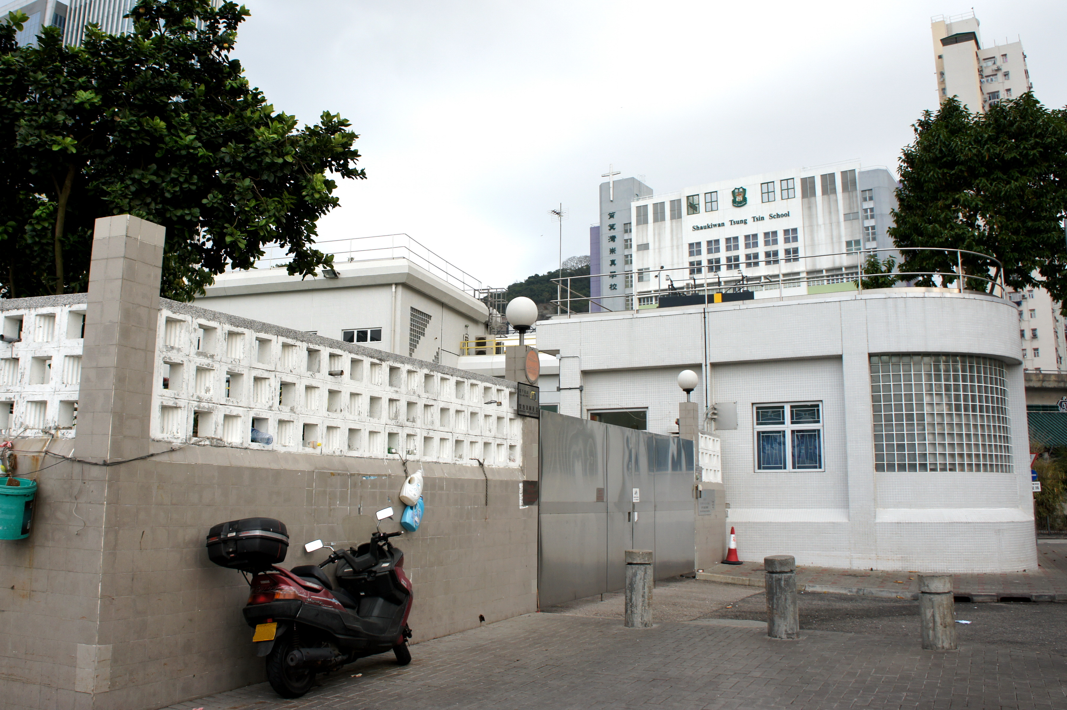 Drainage Services Department. Shau Kei Wan Preliminary Treatment Works. Address: 11 Tam Kung Temple Road, Shau Kei Wan, Hong Kong.